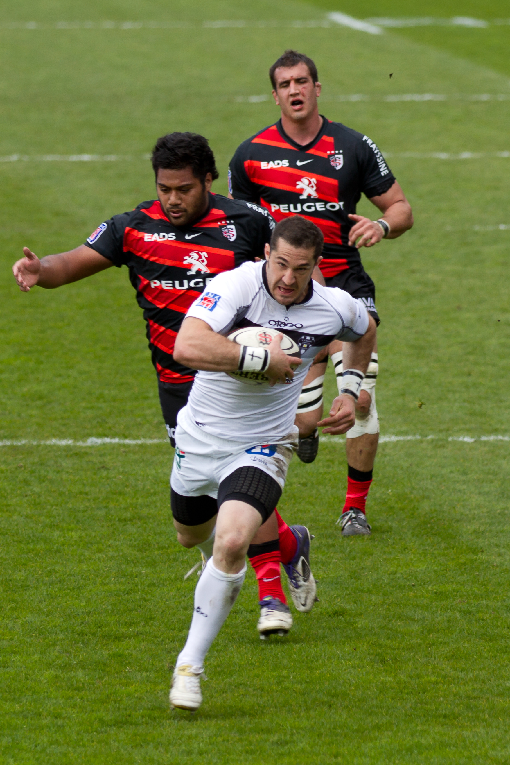 Top 14 — 21 April 2012, Stade Ernest-Wallon. Match between: Stade toulousain — CA Brive Poursuivi par Christopher Tolofua et Yoann Maestri, Scott Spedding file à l'essai en première mi-temps.